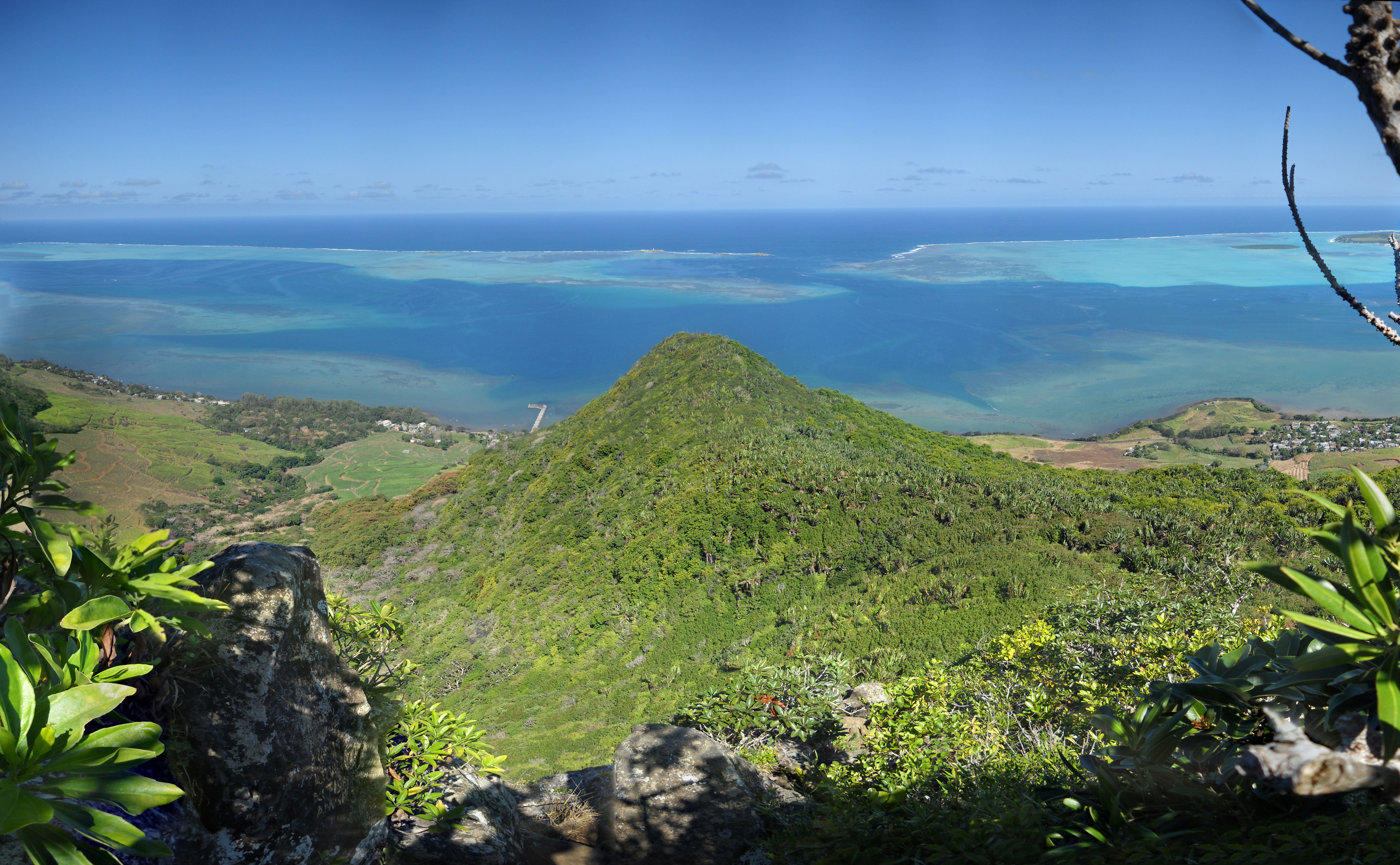 Eastern Viewpoint